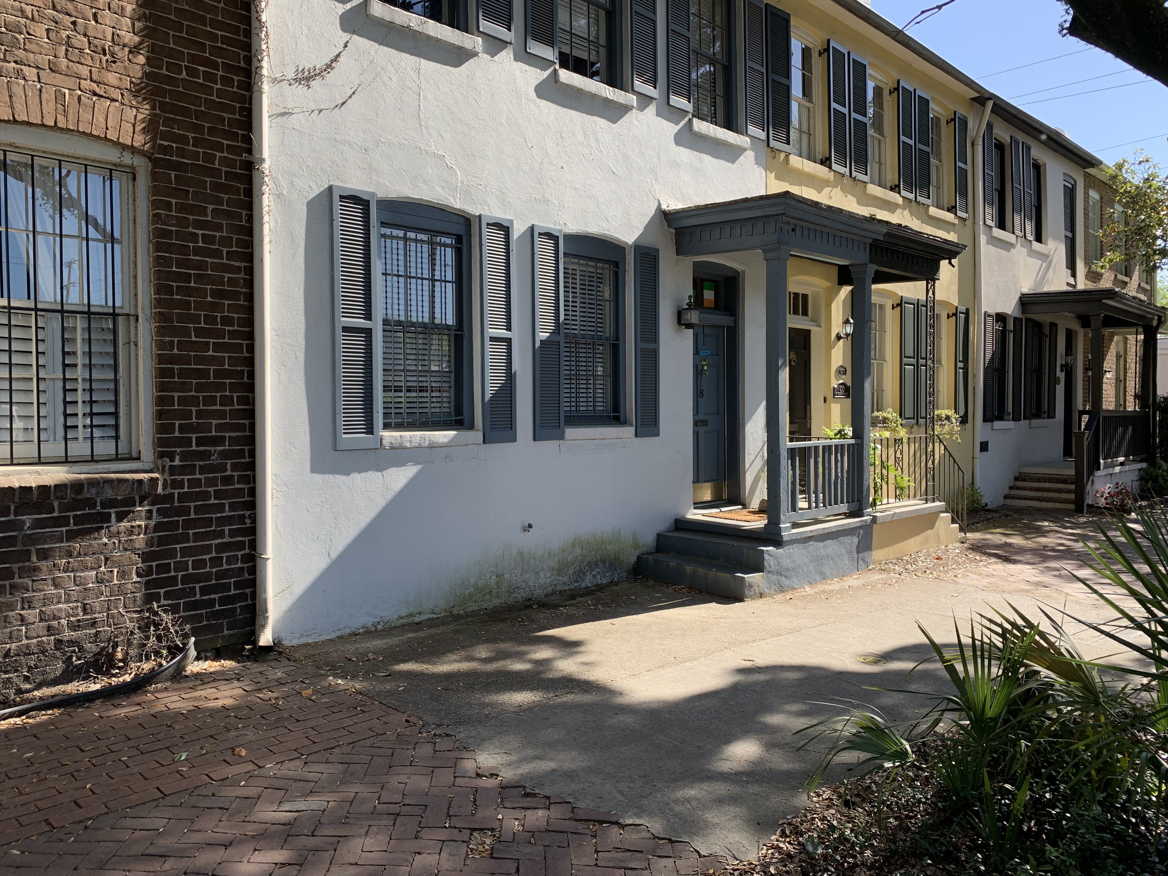 Location used in the film version of Midnight in the Garden of Good and Evil.